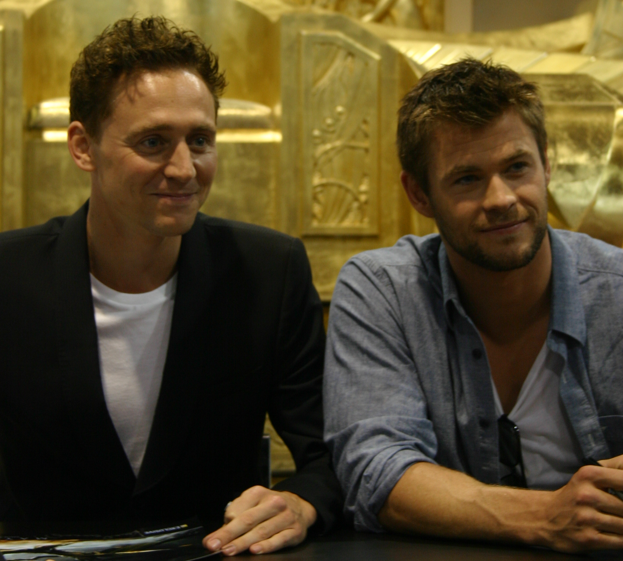 Chris Hemsworth and Tom Hiddleston promoting the film Thor at the 2010 San Deigo Comic-Con International.